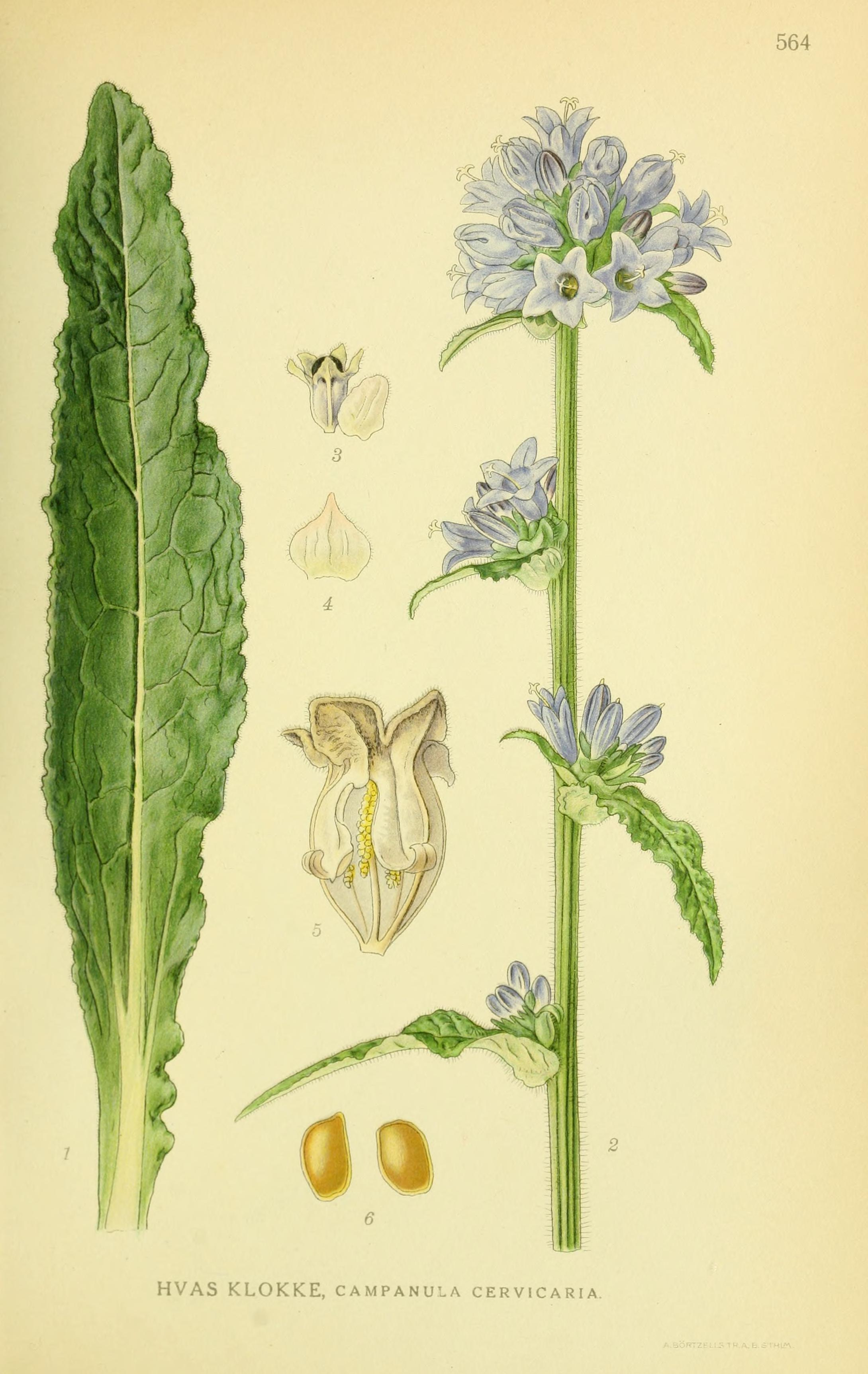 Title: Billeder af nordens flora Year: 1917 (1910s) Authors: Mentz, August, 1867-1944; Ostenfeld, C. H. (Carl Hansen), 1873-1931 Subjects: Plants; Plants; Plants Publisher: København, G. E. C. Gad's forlag Text Appearing Before Image: 564 Text Appearing After Image: HVAS KLOKKE, campanui^a cervicaria.